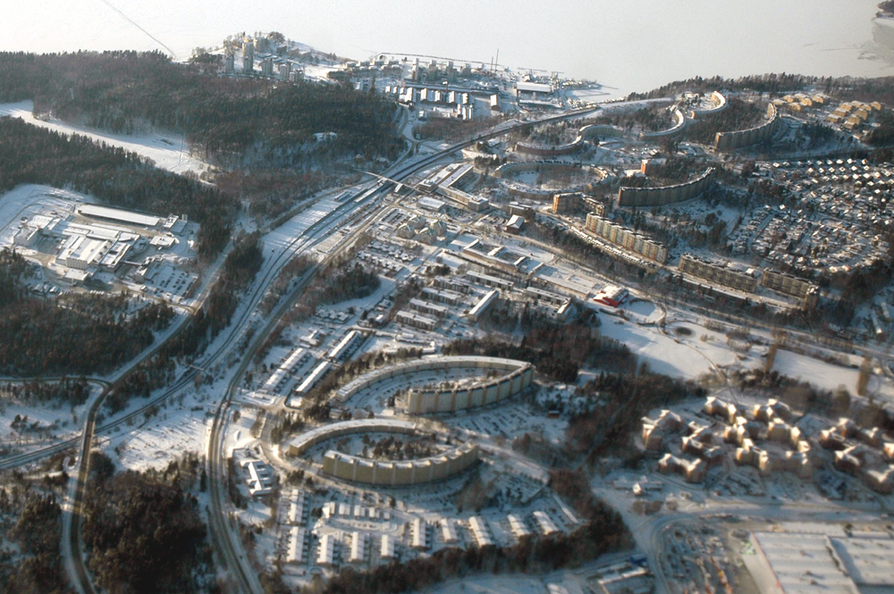 A suburb of Stockholm called Kallhäll, located northwest of the city. Photograph taken by Henryk Kotowski in February 2007.